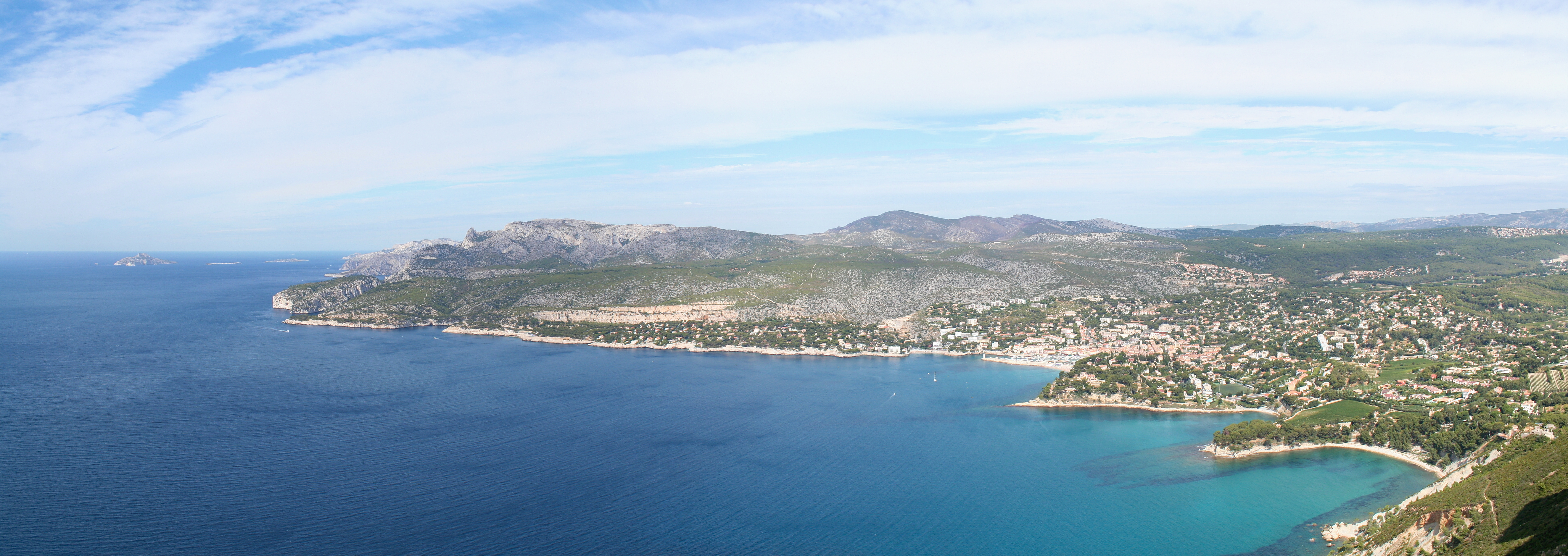 Île de Riou, Calanques de Marseille and Town of Cassis from Cap Canaille